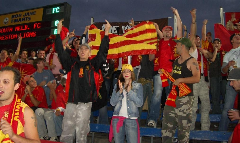 Macedonian Fans at an Australian soccer match in Victoria